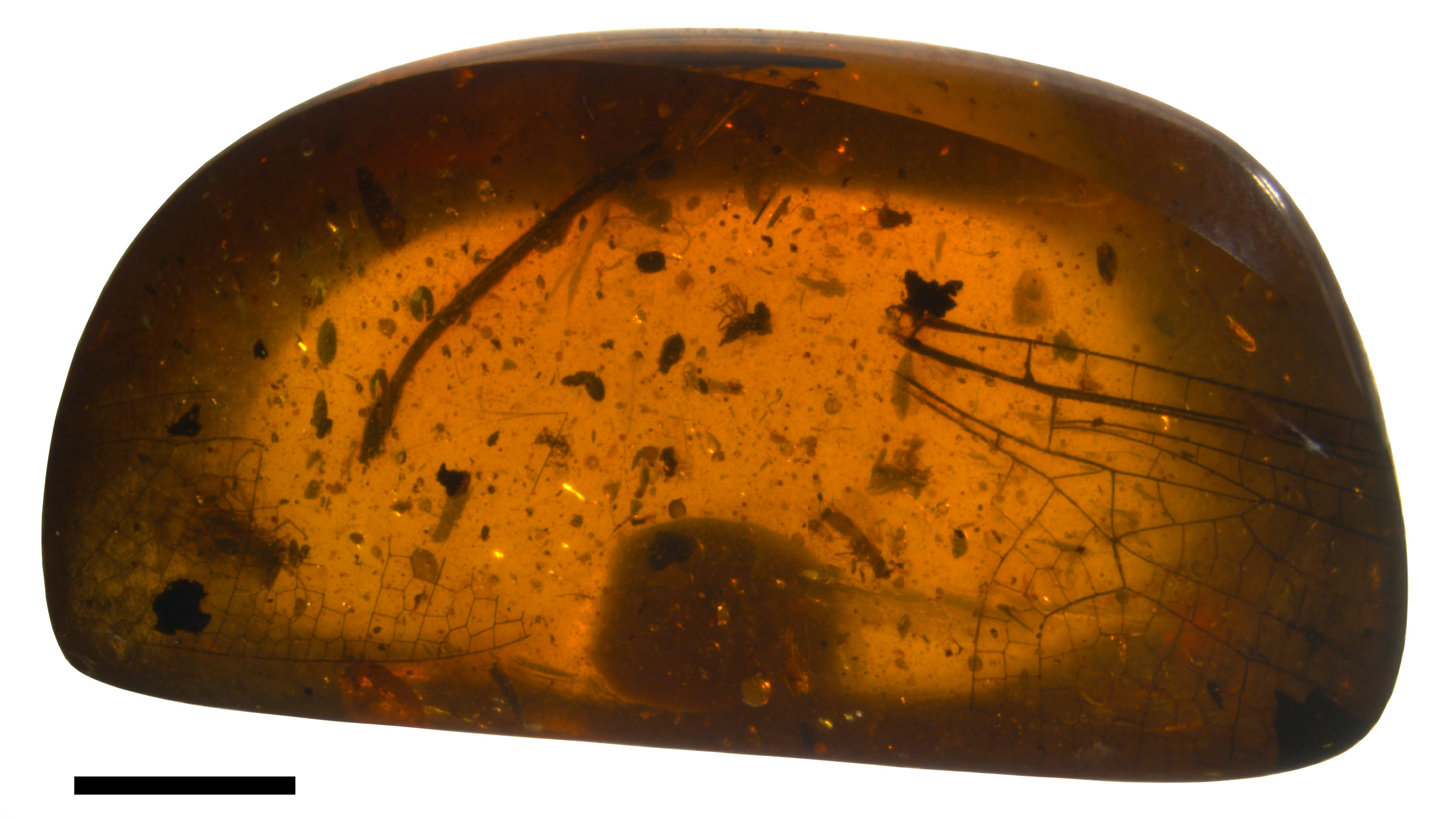 Photograph of complete Burmite amber piece SMNS Bu-94 with the holotype wings of Burmalindenia imperfecta. Scale bar = 5 mm